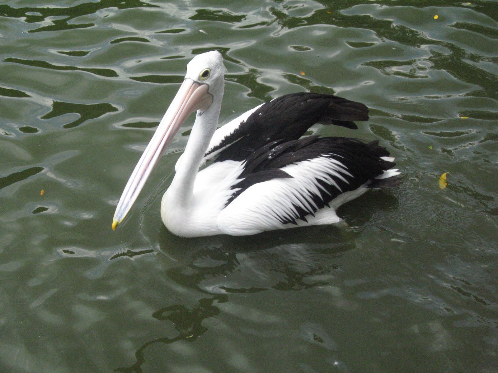 Pelicans at the Jurong BirdPark, Singapore. Taken by Terence Ong in November 2006.